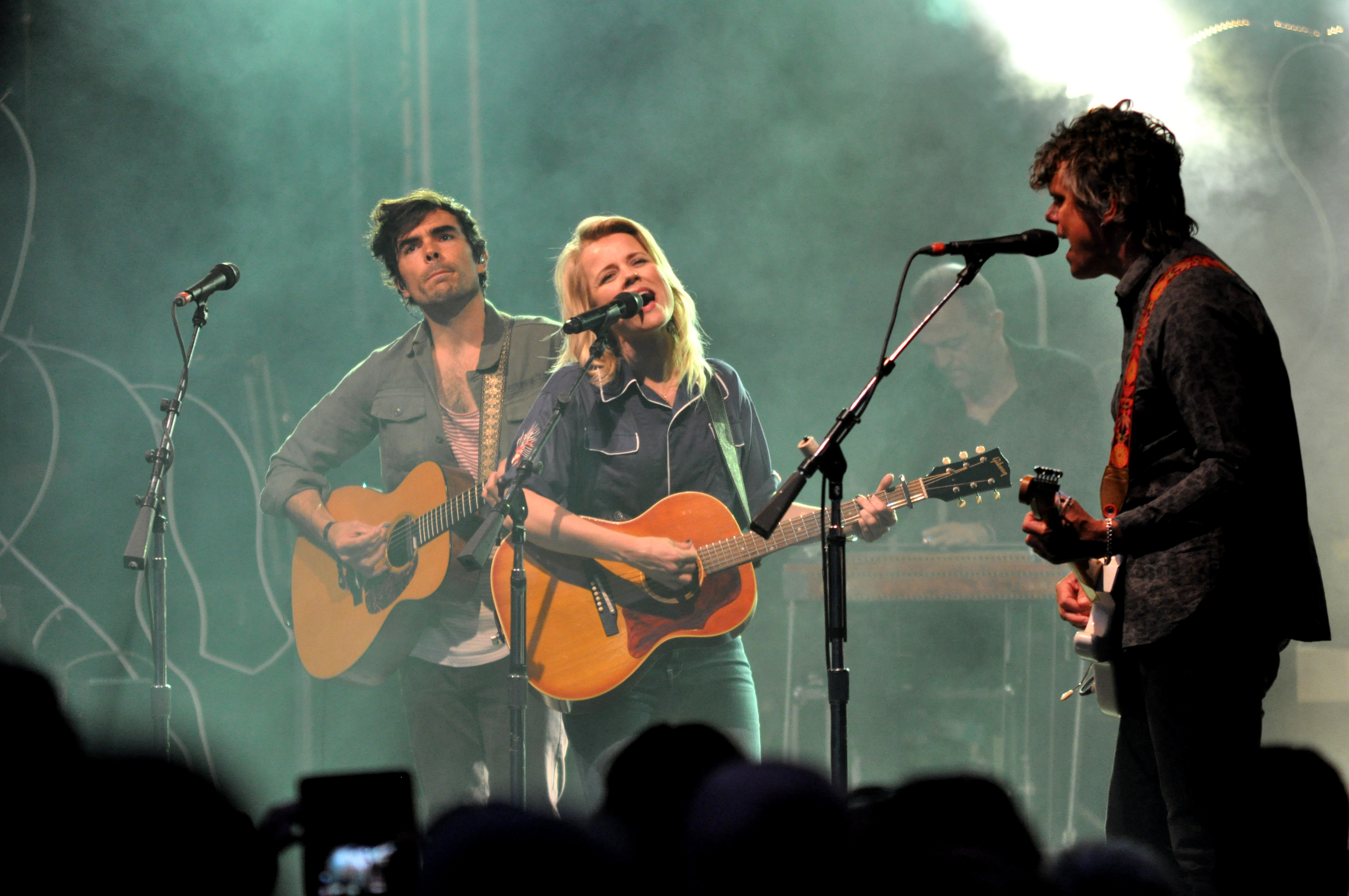 The Common Linnets (NLD/USA) appearance at the 2017 blacksheep festival at Bonfeld castle, Bad Rappenau, Baden-Wuerttemberg, Germany Festivalsommer This photo was created with the support of donations to Wikimedia Deutschland in the context of the CPB project "Festival Summer".